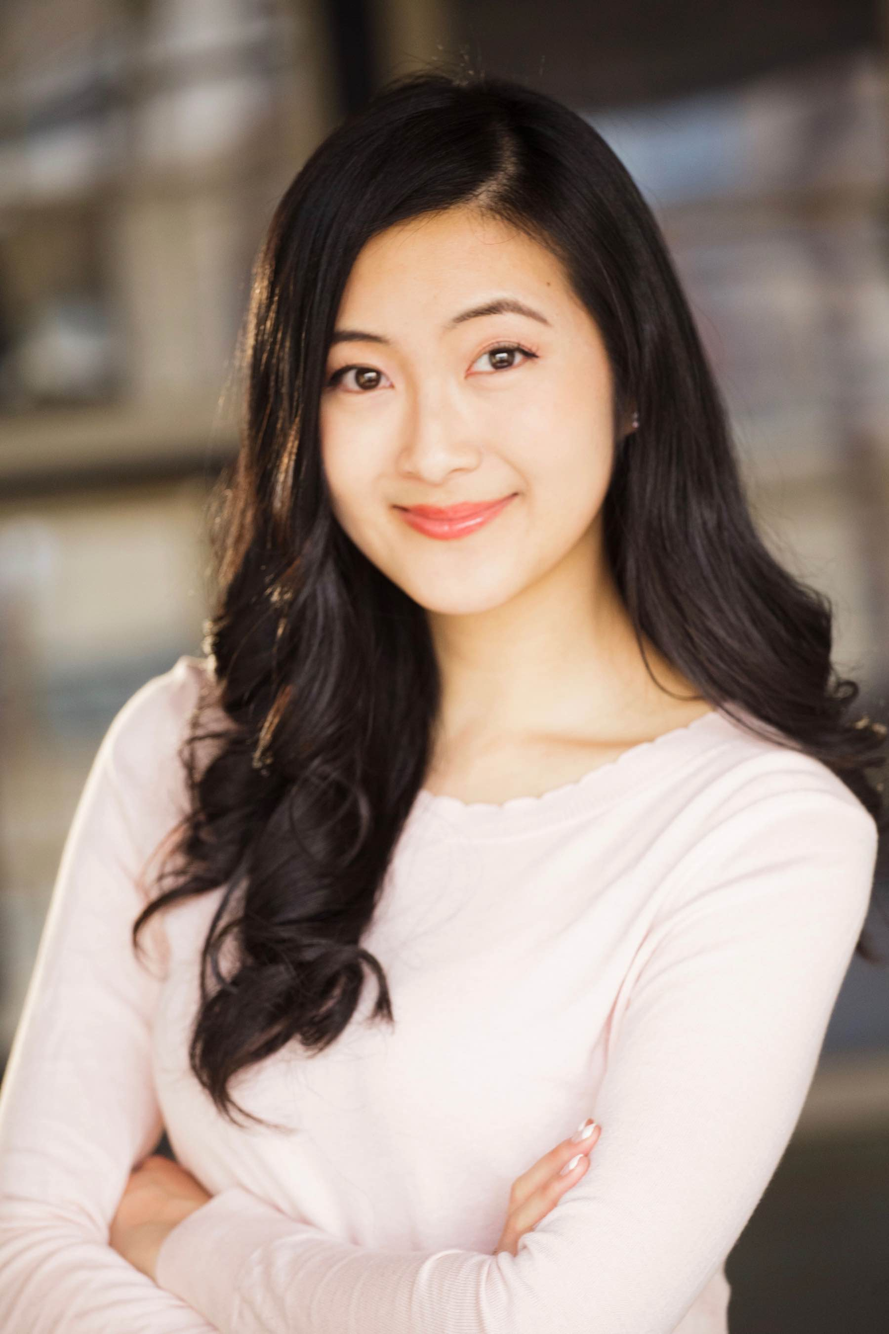 Simple portrait picture of Amy Kao